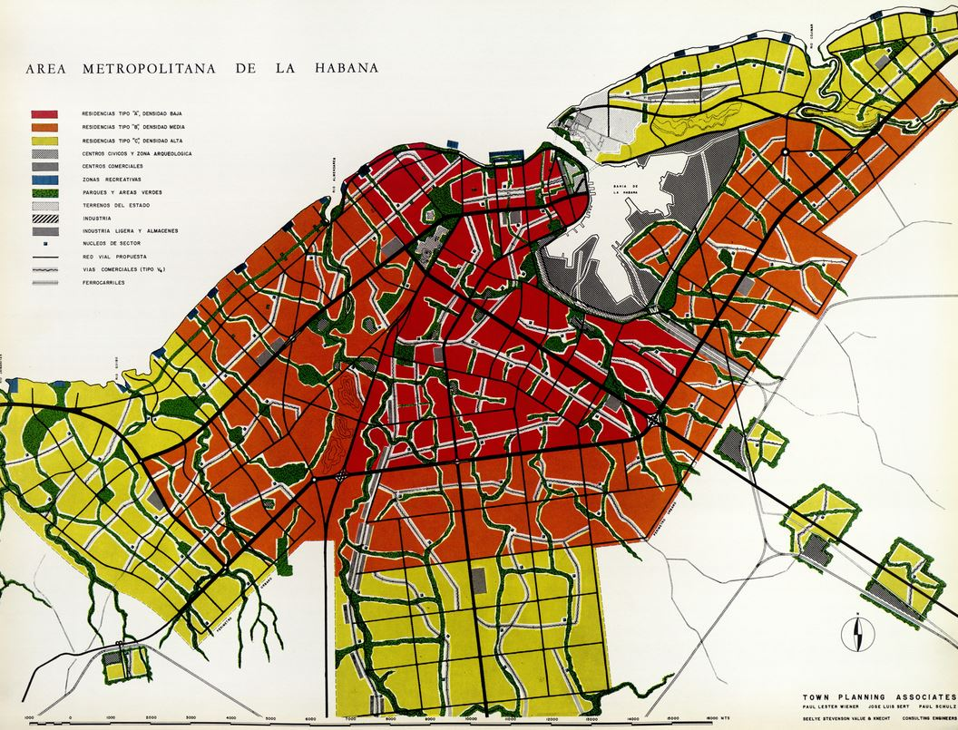 Plan Piloto. Population density in the metropolitan area of Havana and use map. Havana, Cuba. publication date 1959